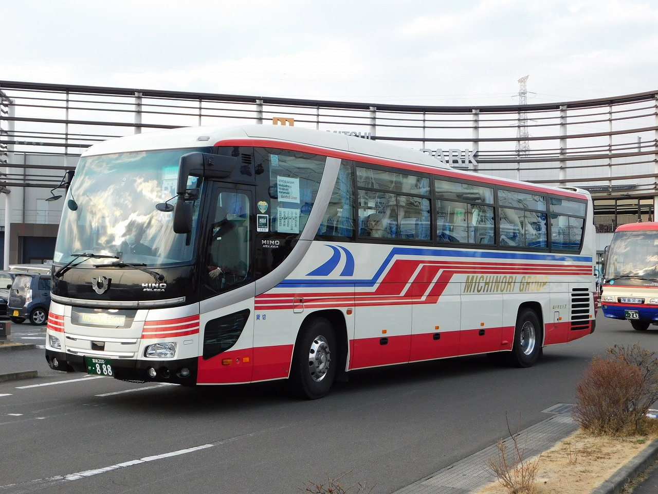 Iwate Kenpoku bus Hino S'elega on highwaybus "Sendai Airport-Matsushima"